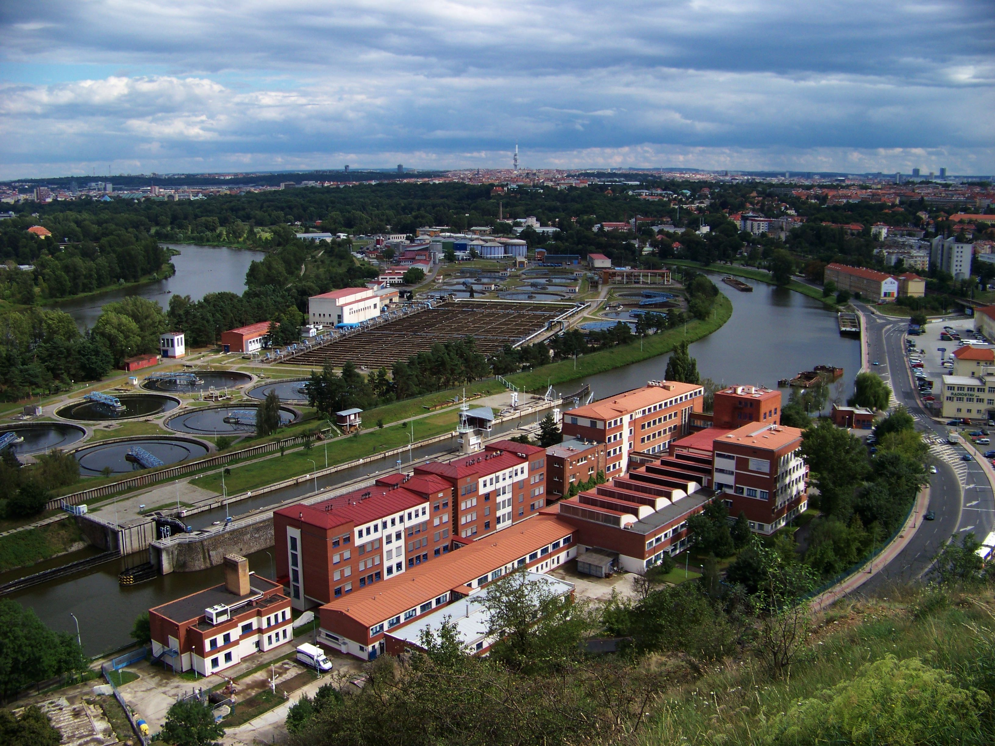 A view of Prague from Baba ruin, Prague-Dejvice, the Czech Republic. Císařský Island and Bubeneč. - OpenStreetMap (Info)